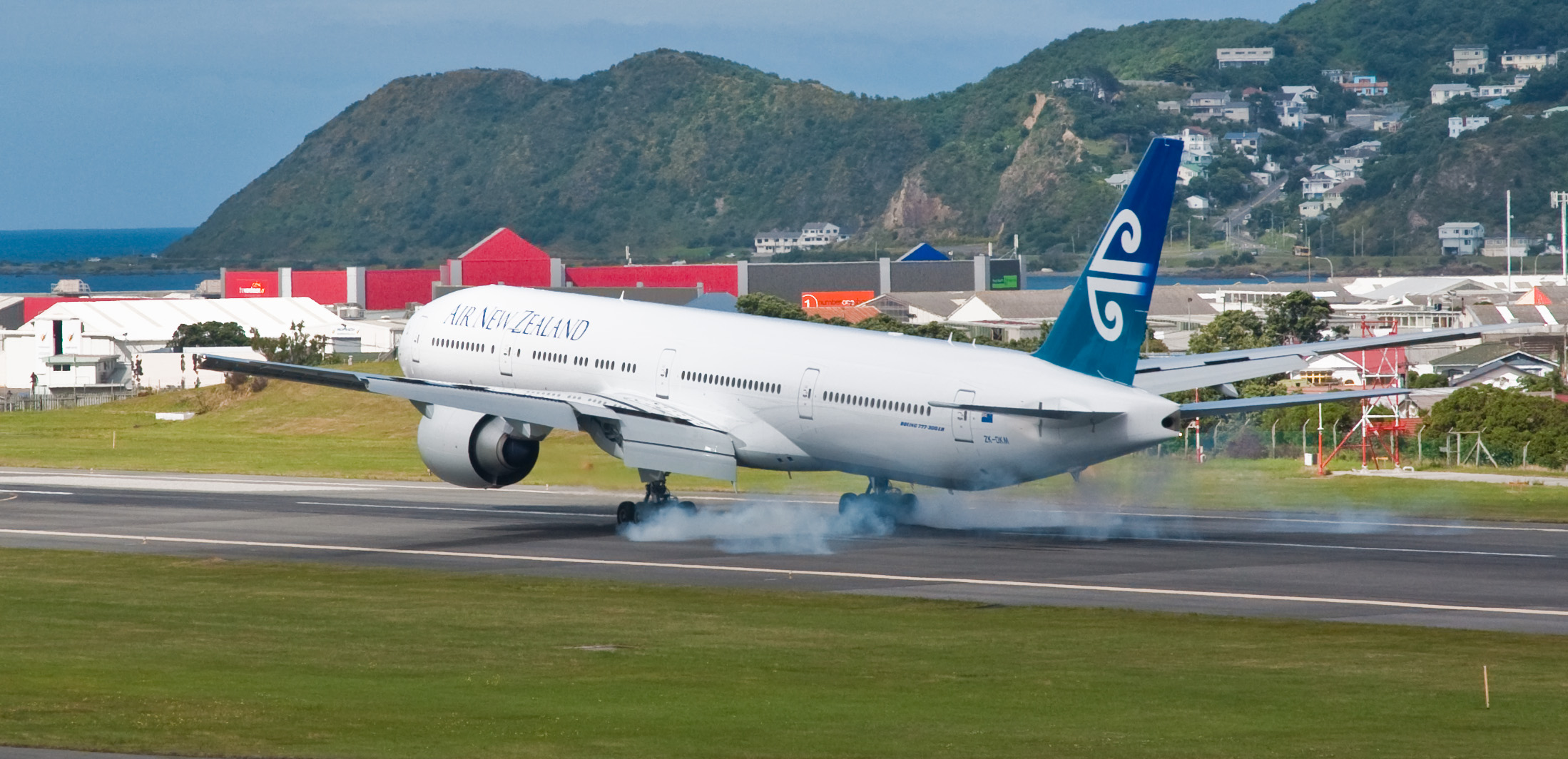 Air New Zealand's new Boeing 777-300ER (reg. ZK-OKM) lands at Wellington International Airport on 9 February 2011